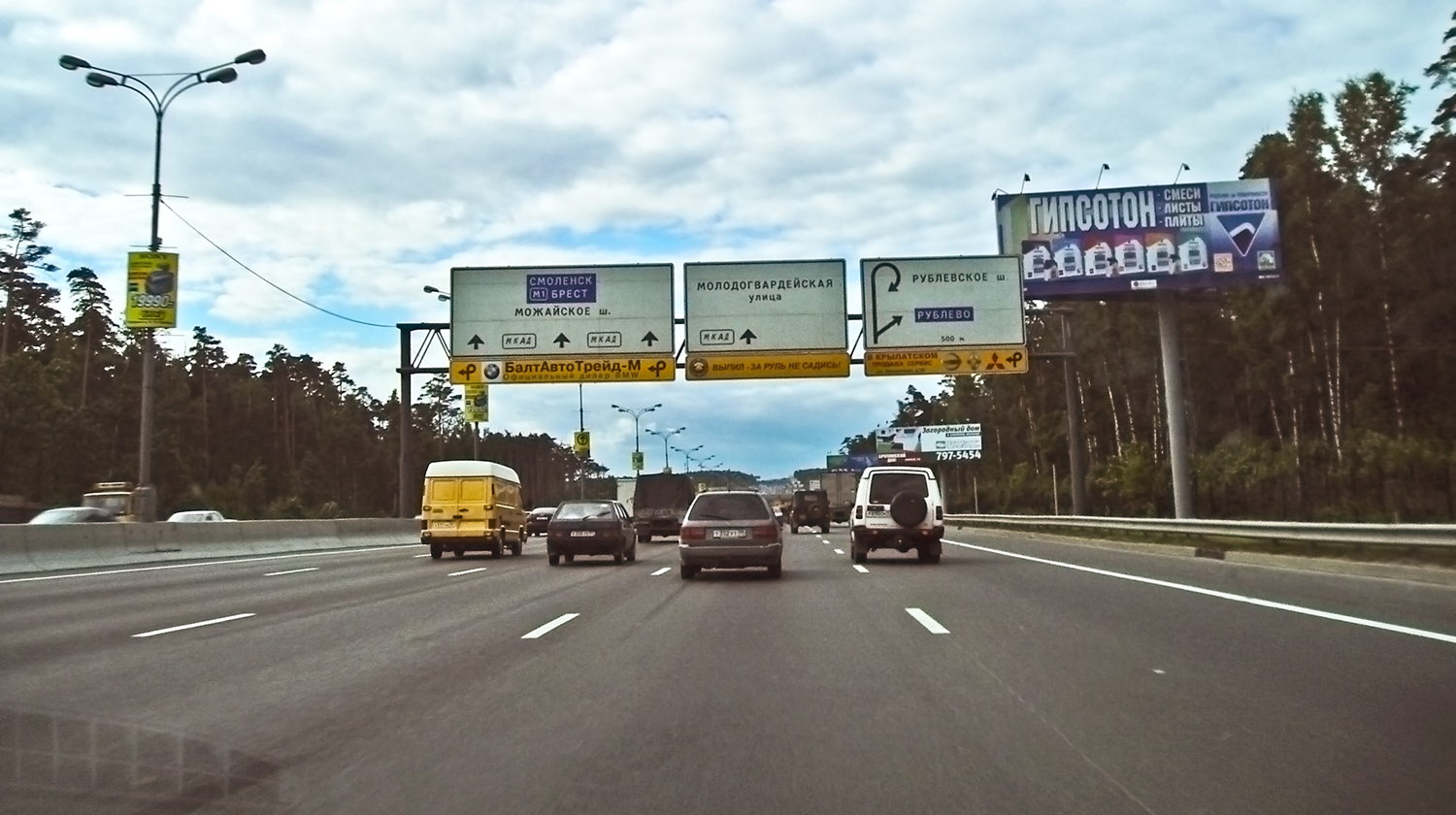 From the Moscow Ring road MKAD.